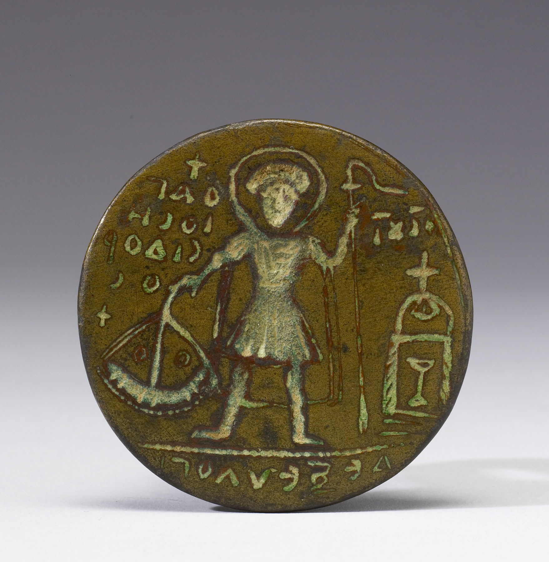 St. Isidore was martyred on the Greek island of Chios in AD 251. The well into which his body was thrown later became a healing shrine, represented at the right. The ship to the left refers to Isidore's role as patron saint of sailors, as well as to the ships that carried pilgrims to his island shrine. This stamp, used to produce pilgrim tokens, has a backward inscription that becomes legible when imprinted in clay.